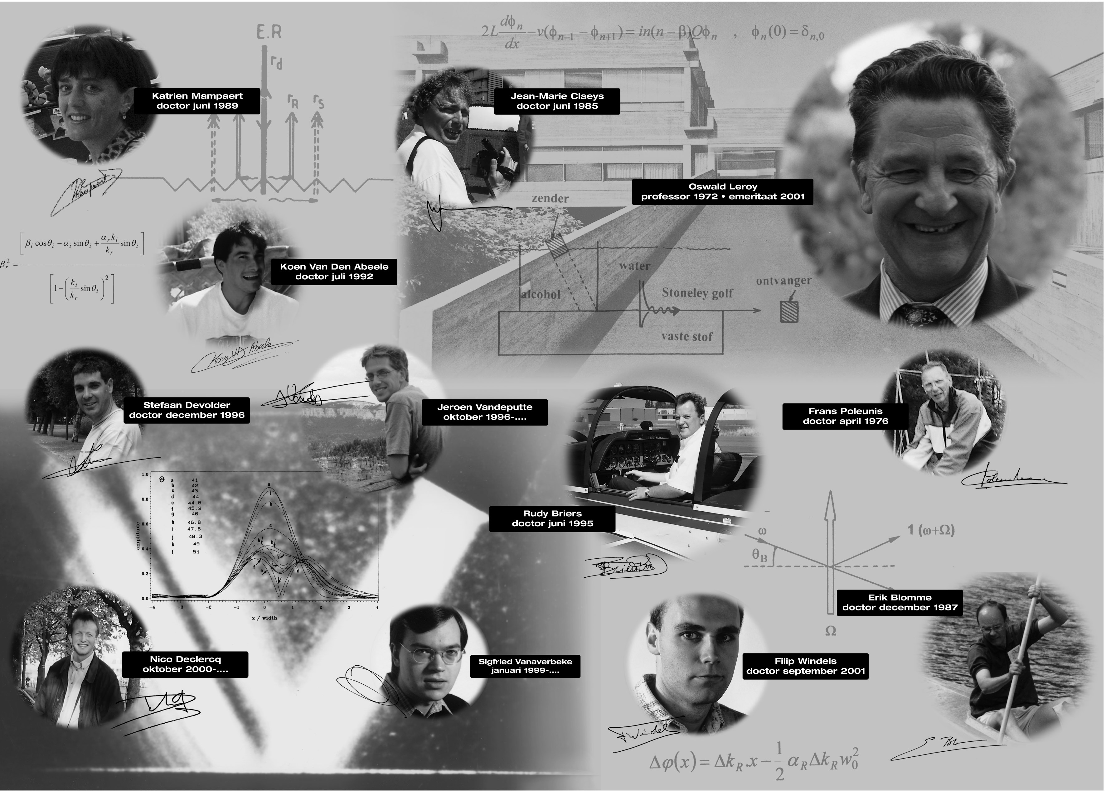 Oswald Leroy Team 1972-2001. Picture made on the occasion of Oswald Leroy’s retirement in 2001. The pictures shows Oswald Leroy with the main entrance of the Catholic University of Leuven Campus Kortrijk (KULAK) in the background as well as some mathematical formulas that have played a role in Leroy’s long career in acousto-optics. In addition a picture is shown, taken in 2001, of each person who ever became a doctor under Leroy’s supervision from 1972 until 2001, including those who had not graduated yet in 2001. We retrieve, ordered by date, Frans Poleunis, Jean-Marie Claeys, Erik Blomme, Katrien Mampaert, Koen Van Den Abeele, Rudy Briers, Stefaan Devolder, Filip Windels, Jeroen Vandeputte, Sigfried Vanaverbeke and Nico Declercq.